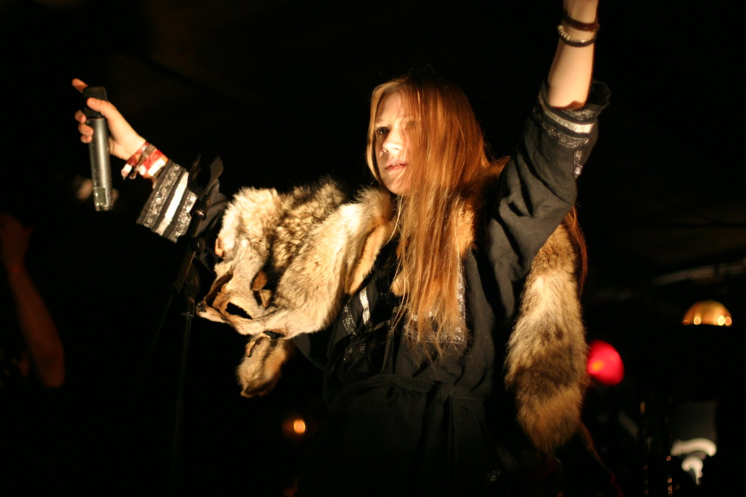 Maria („Mascha“) ‚Scream‘ Archipowa, vocalist of the russian Pagan-Metal-Band Arkona, performing live at the Black Troll Festival (Germany) in 2010.